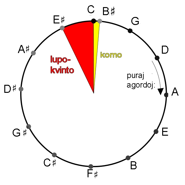 File:Quinte du loup et comma pythagoriciens.svg in Esperanto. Wolf fifth: the thirteenth tone is a Pythagorean comma higher than the first tone.